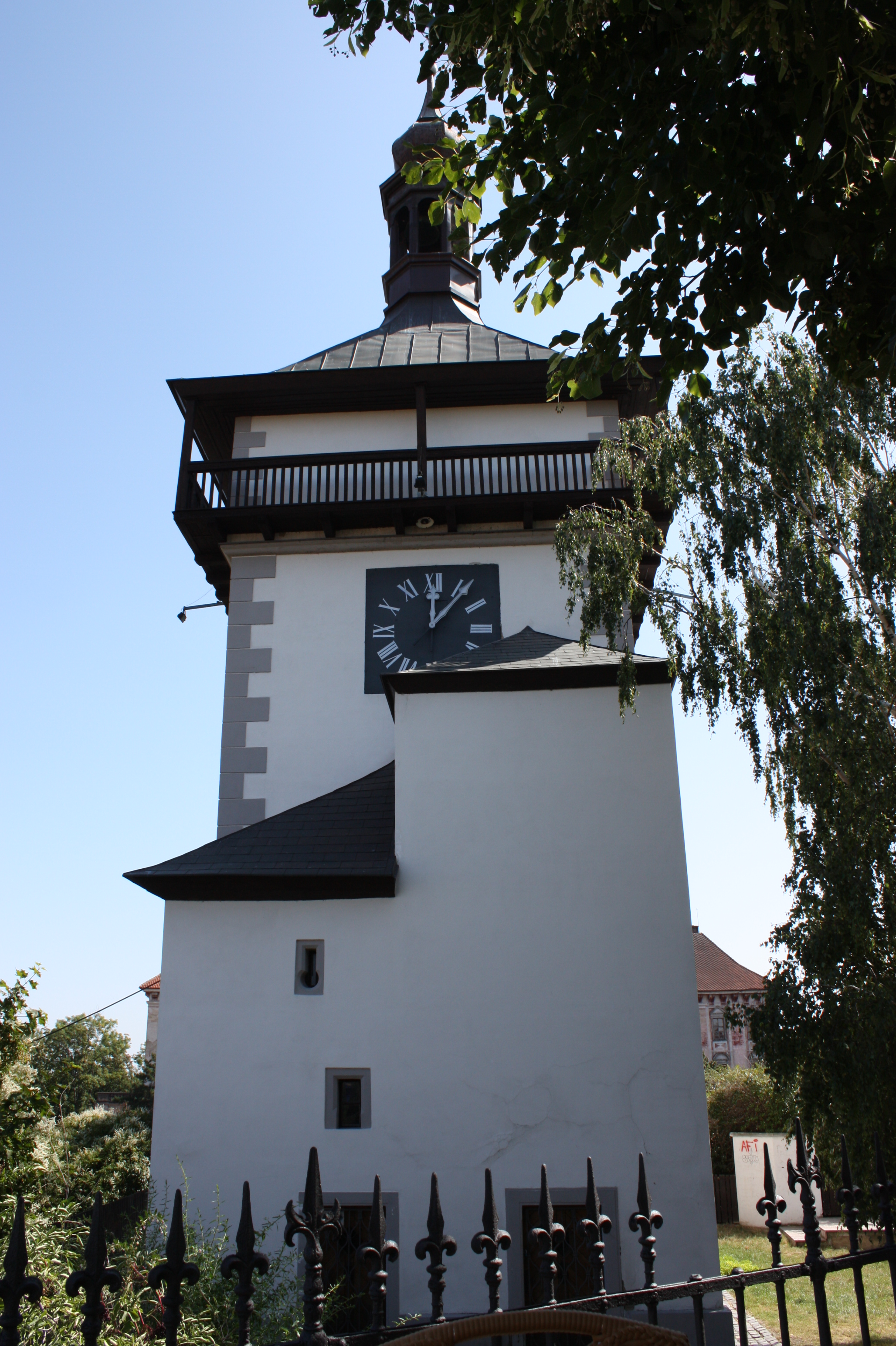 Tower "Hlaska" in the town of Roudnice nad Labem.